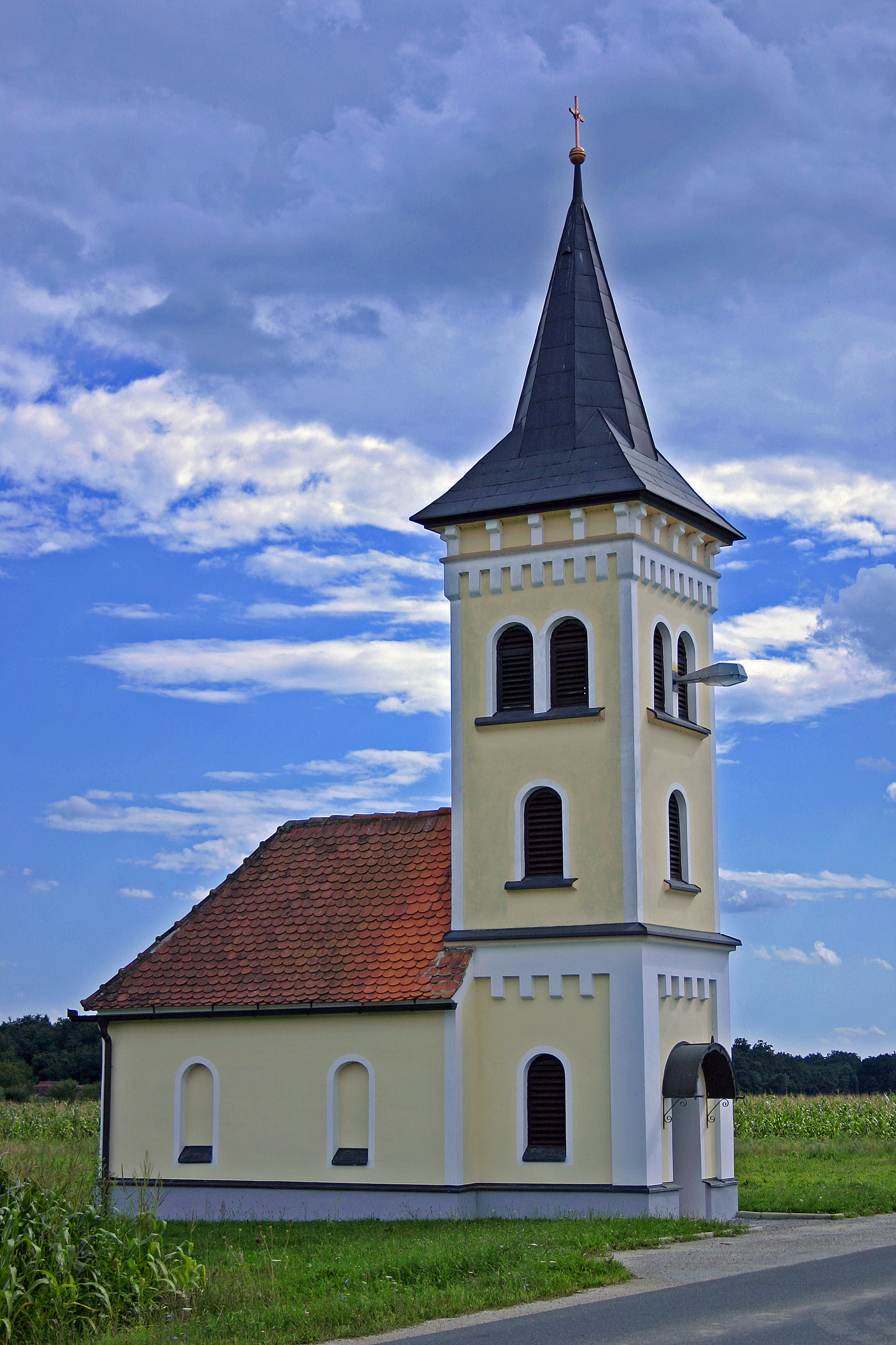 Chapel Vaneča Prekmurje Slovenia